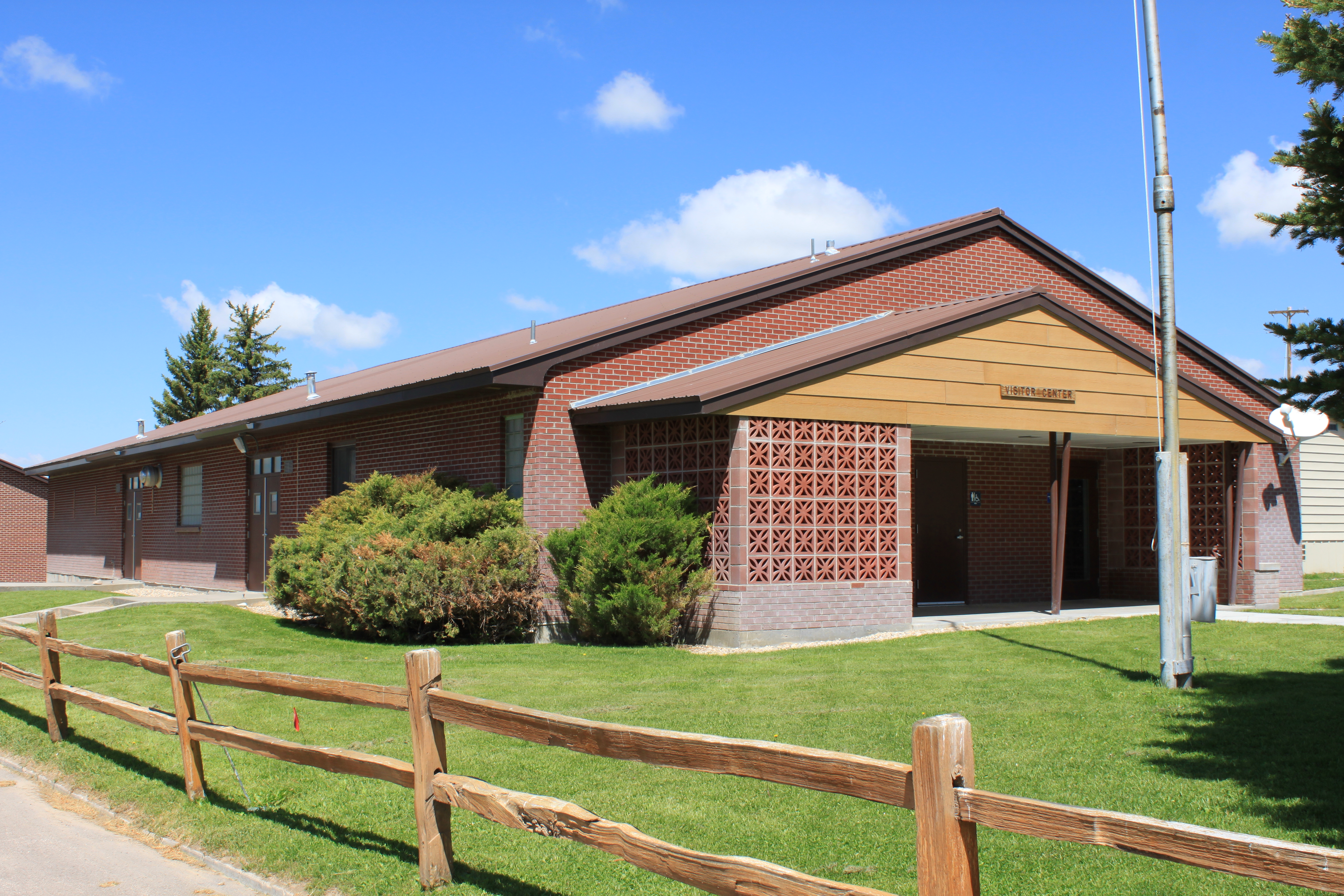 Credit: USFWS